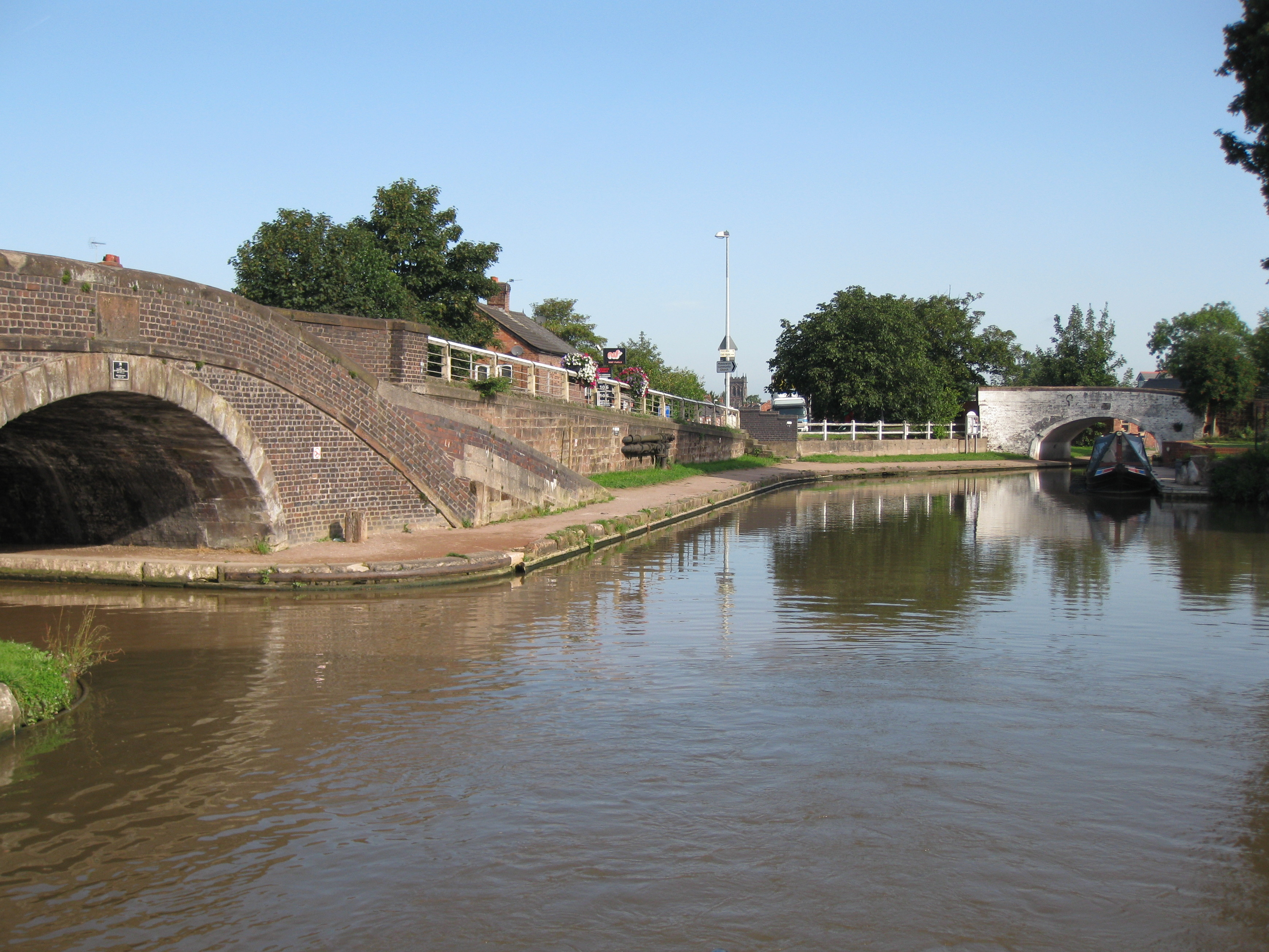 This is looking back as we travelled south towards the Kings Lock. The white bridge (bridge 169) takes you north on the Trent and Mersey Canal towards the Middlewich Locks; the bridge on the left (bridge 168) takes you on to the Middlewich Branch.